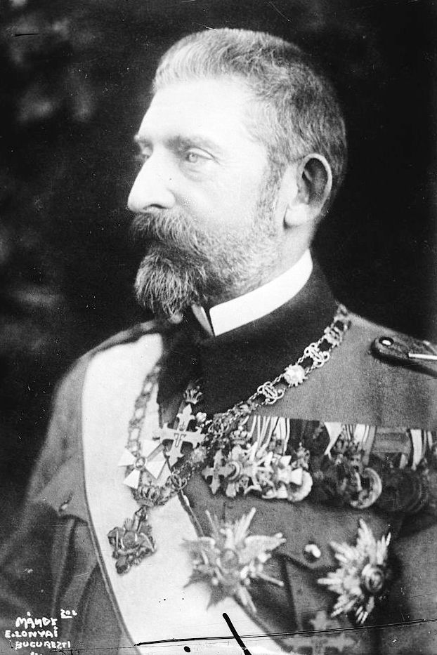 King Ferdinand I of Romania